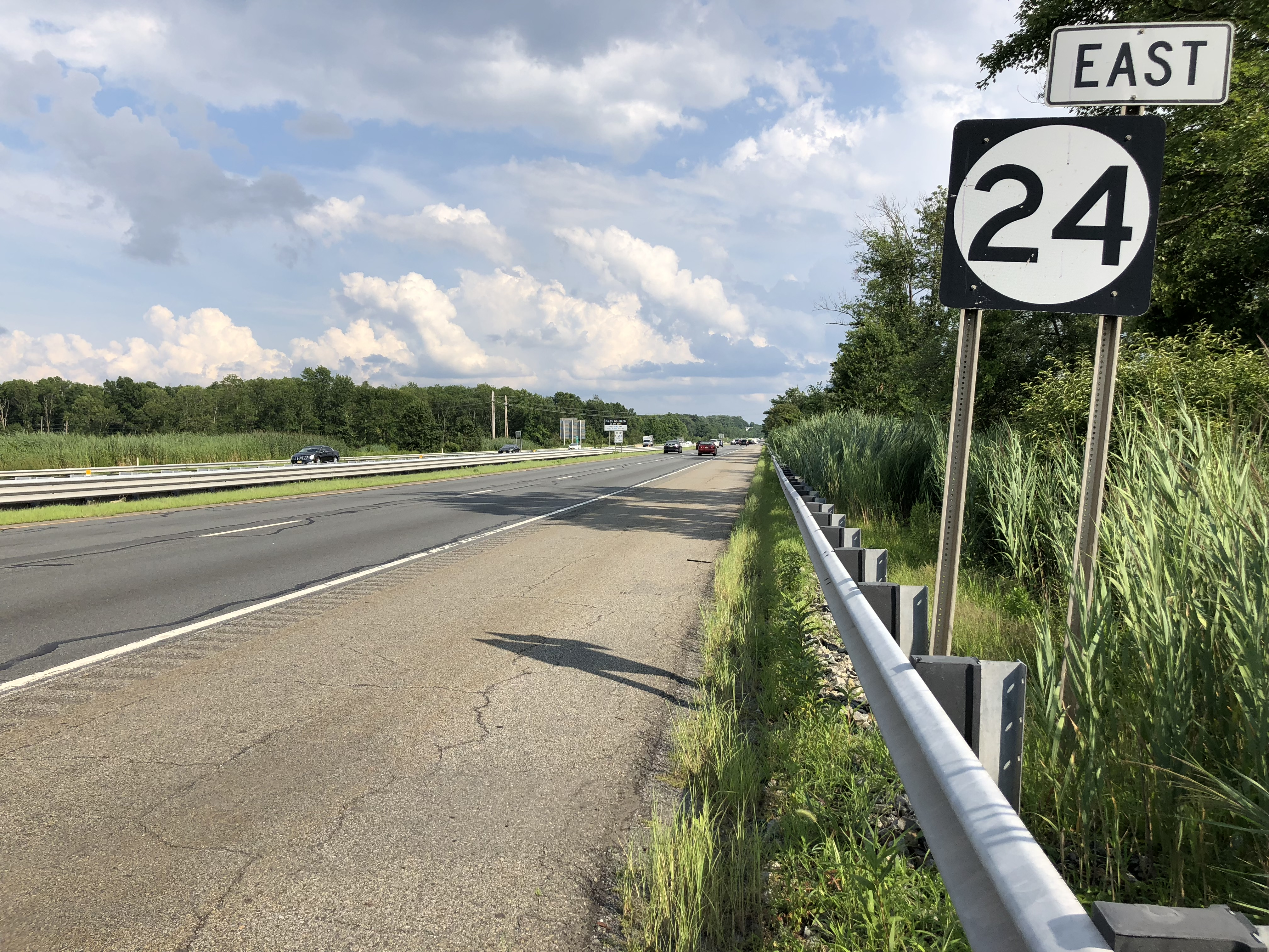 View east along New Jersey State Route 24 between Exit 2 and Exit 7 in Florham Park, Morris County, New Jersey